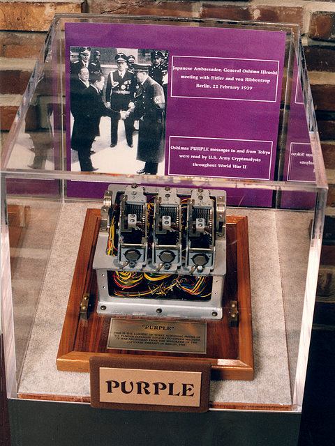 Fragment of a Purple machine on display at the United States National Security Agency's National Cryptologic Museum located in Ft. Meade, Maryland. The plaque at the base of the machine fragment reads: " 'Purple' This is the largest of three surviving pieces of the famous Japanese diplomatic cipher machine. It was recovered from the wreckage of the Japanese embassy in Berlin, 1945."